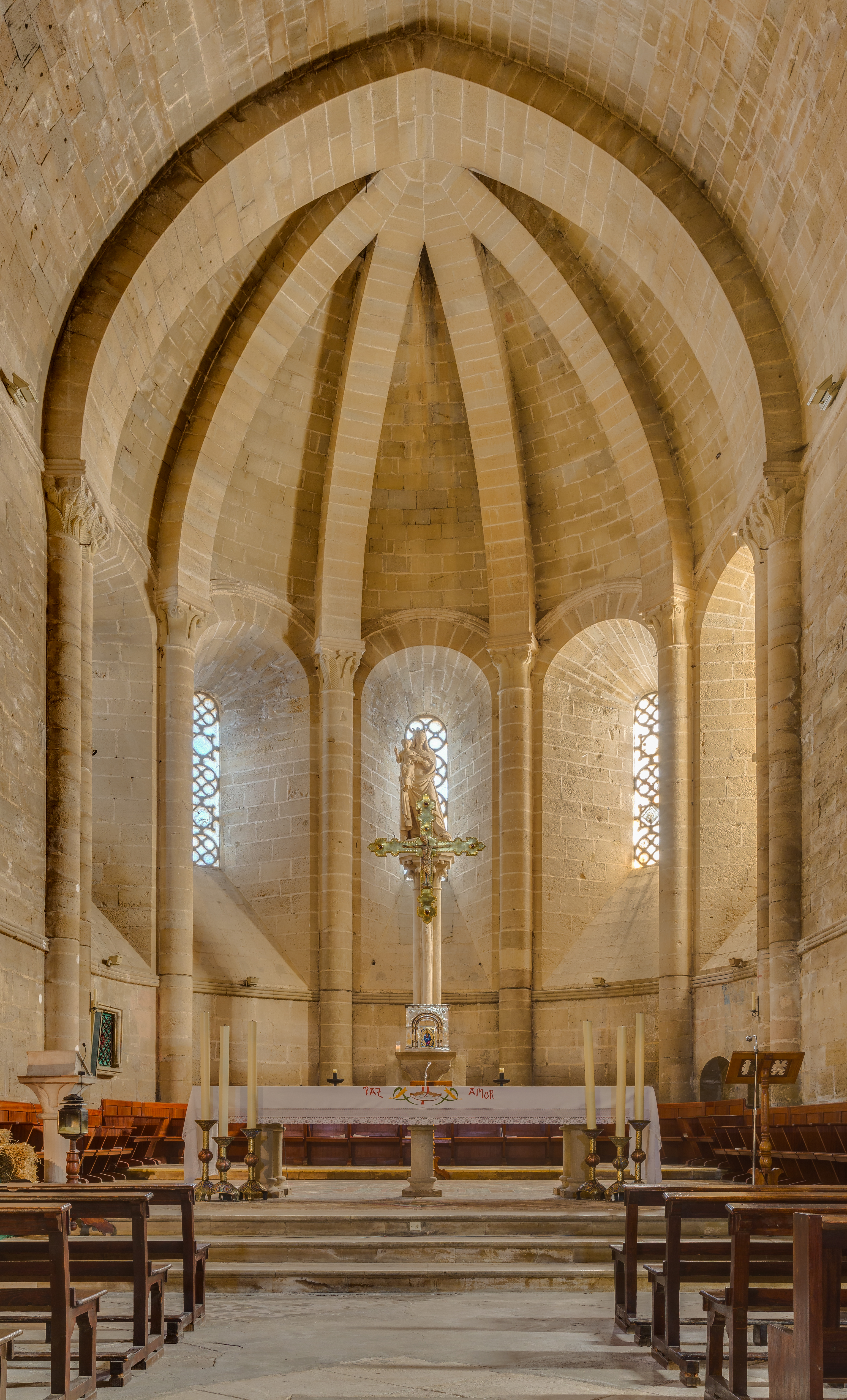 Apse of the Abbey of Santa María la Real de la Oliva, a still active Cistercian monastery in Carcastillo, Navarre, Spain. The Abbey was founded in 1150 when the king, García Ramírez of Navarre, died. The temple was inspired by the French abbeys at Morimond and Escaladieu.